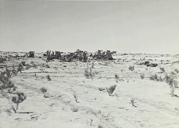 Guns of the Australian 2/8th Field Regiment firing around El Alamein, 12 July 1942